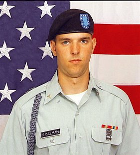 PFC Jesse V. Spielman, a U.S. Army soldier who was one of the perpetrators of the Mahmudiyah massacre.